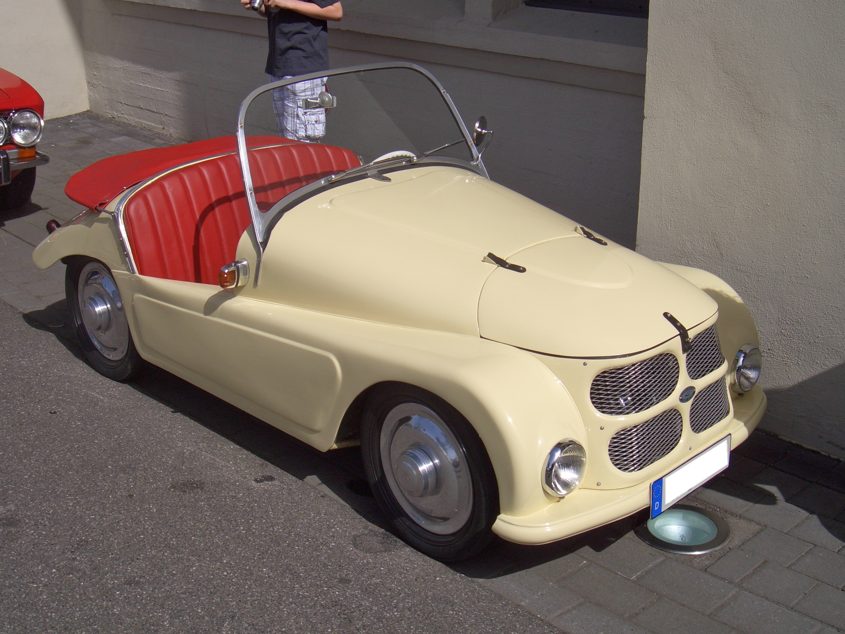 Kleinschnittger F 125,1950-1957, seen at 2011 spring festival at CLASSIC REMISE, Düsseldorf, Germany